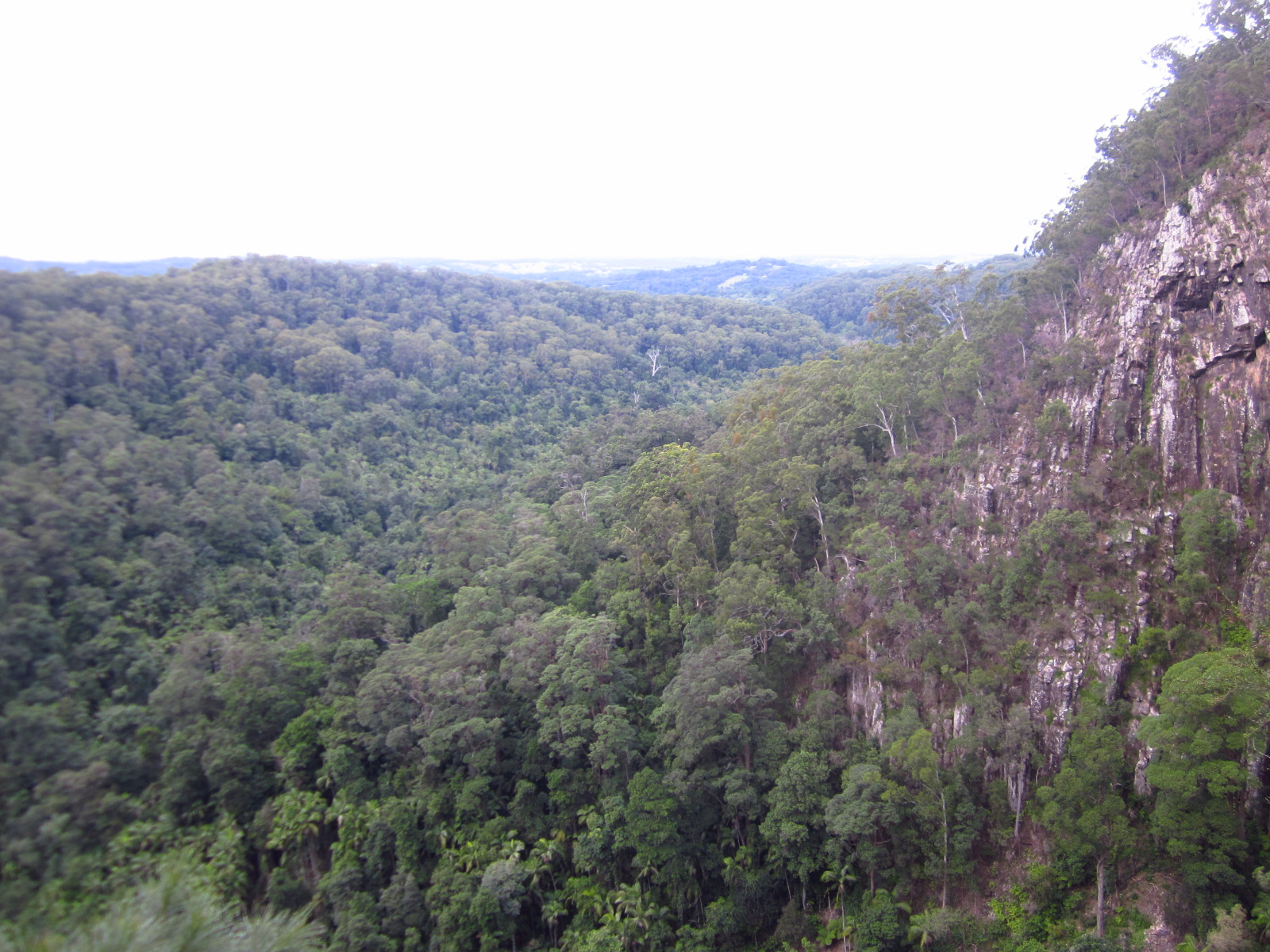 Taken at the view platform at Minyon Fall